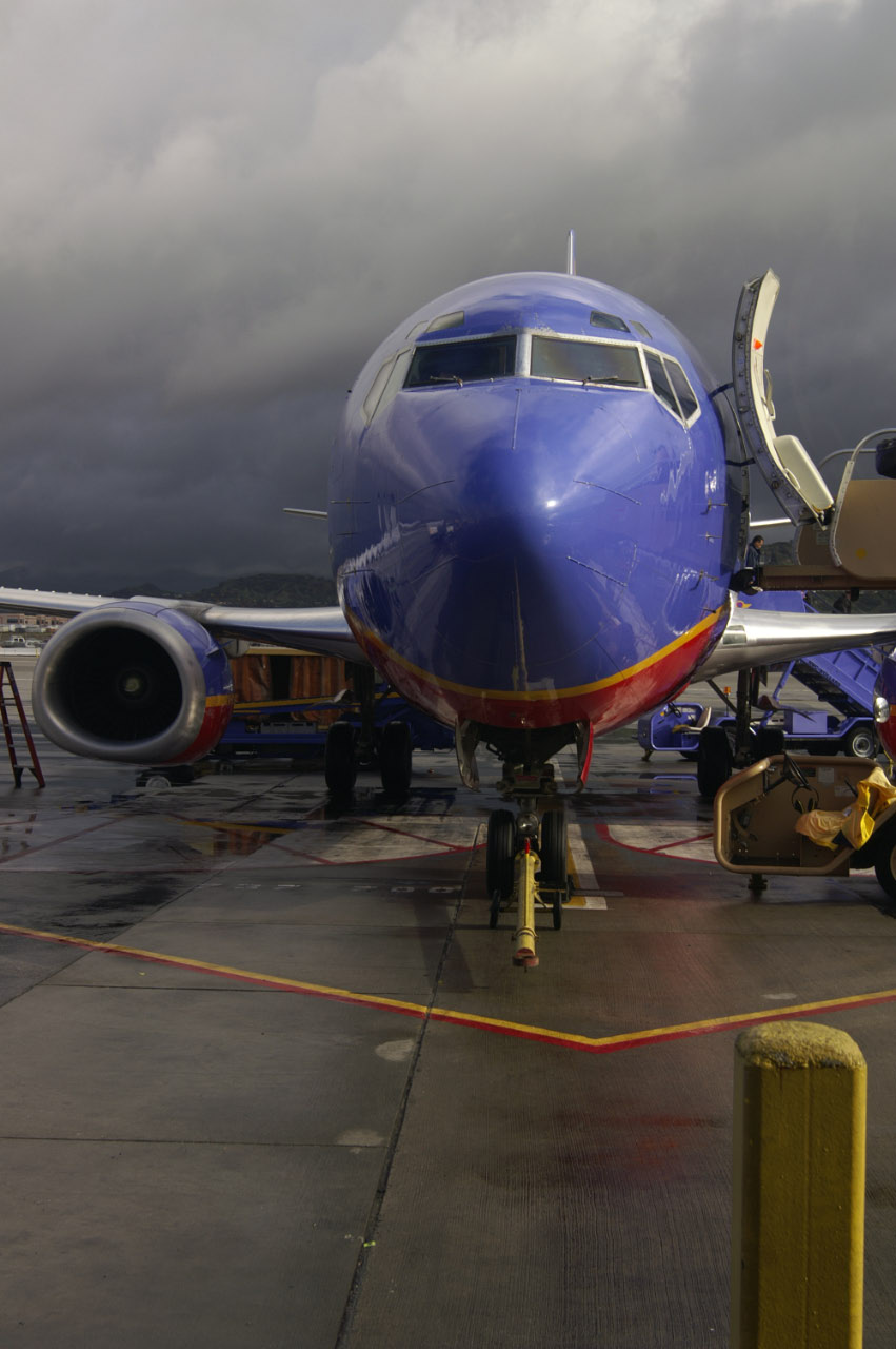 A Southwest Airlines Boeing 737 aircraft parked on the tarmac under cloudy skies at Bob Hope Airport in Burbank, California, United States.